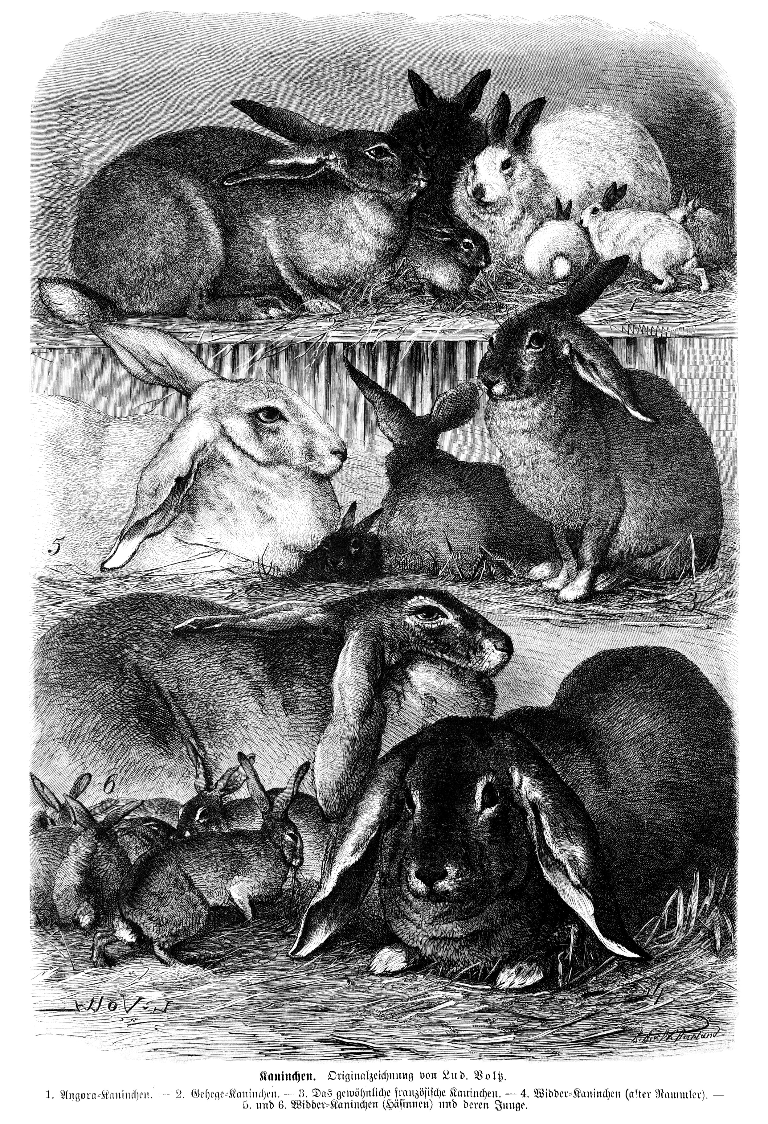 caption: "Kaninchen. Originalzeichnung von Lud. Voltz."